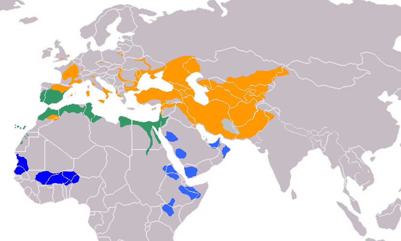 Author is Ulrich Prokop (Scops)